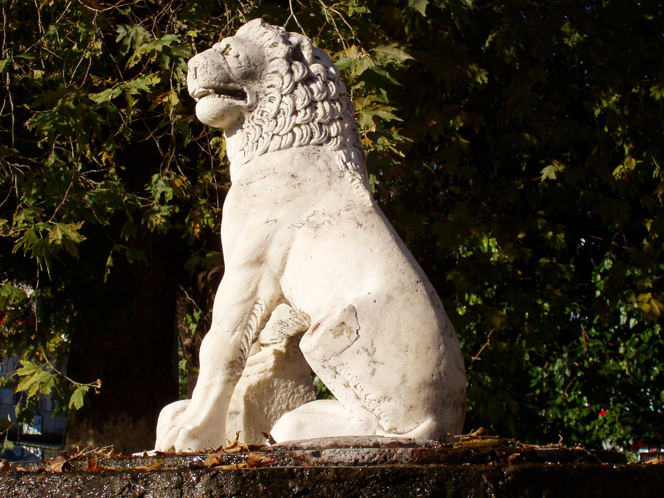 The statue of the Lion of Kaunos was found during illegal excavations at Kaunosin 1965 and brought to Koycegiz, where it was put on a square near to the port and boulevard.